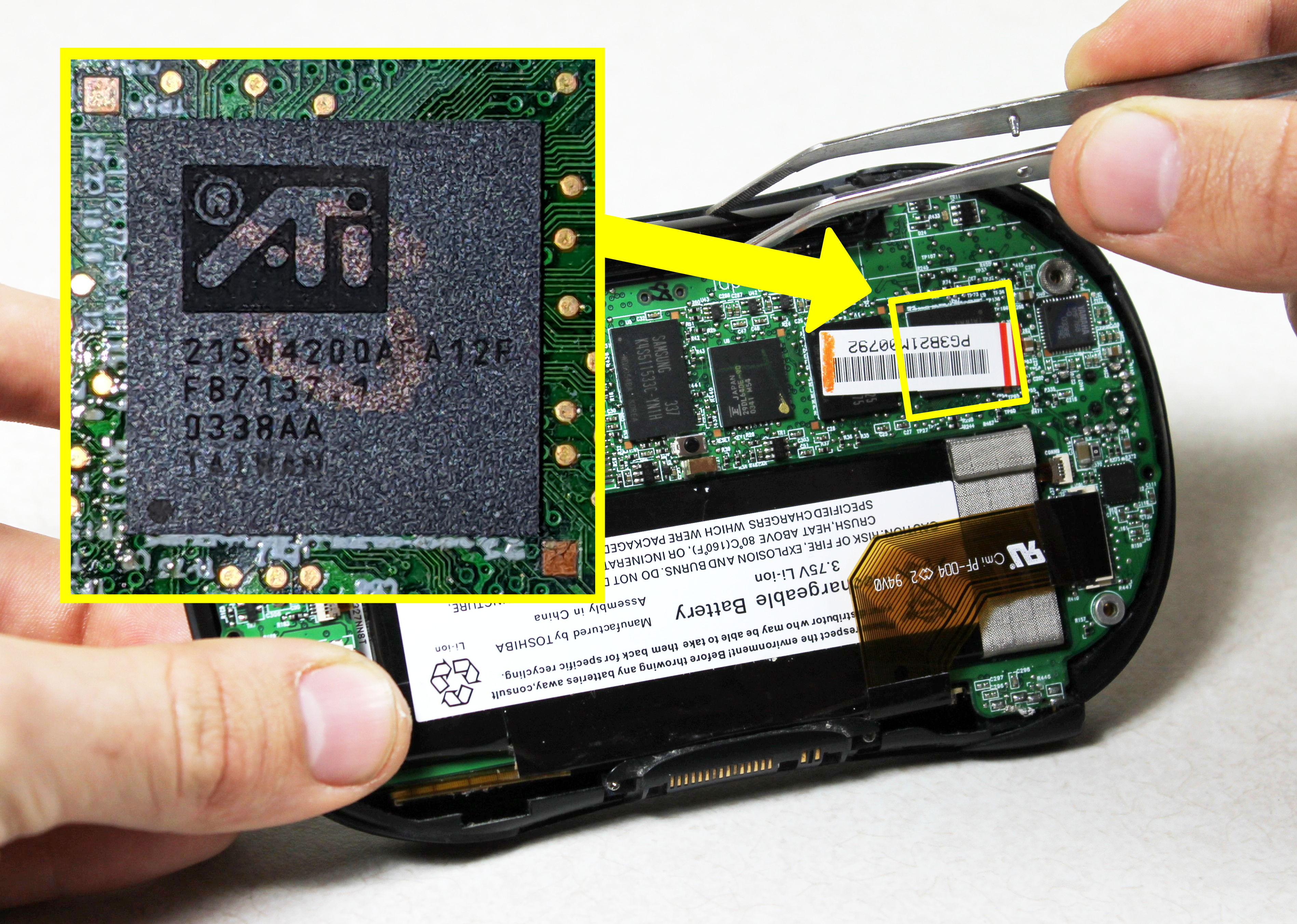 Close up of ATI W4200 2D Image Accelerator chip. Close up image was taken by @parkerlreed, Nov 2019. Teardown image was taken by Michelle Cheung (licensed under CC, as published on iFixit). Composite image prepared by @Pinchies.